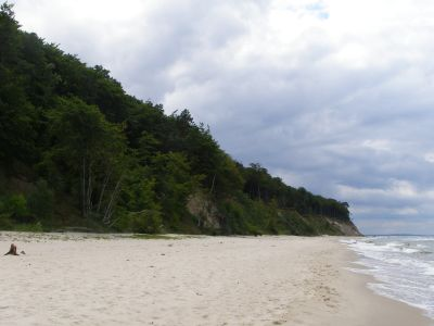 Beach in the Wolin National Park, Poland